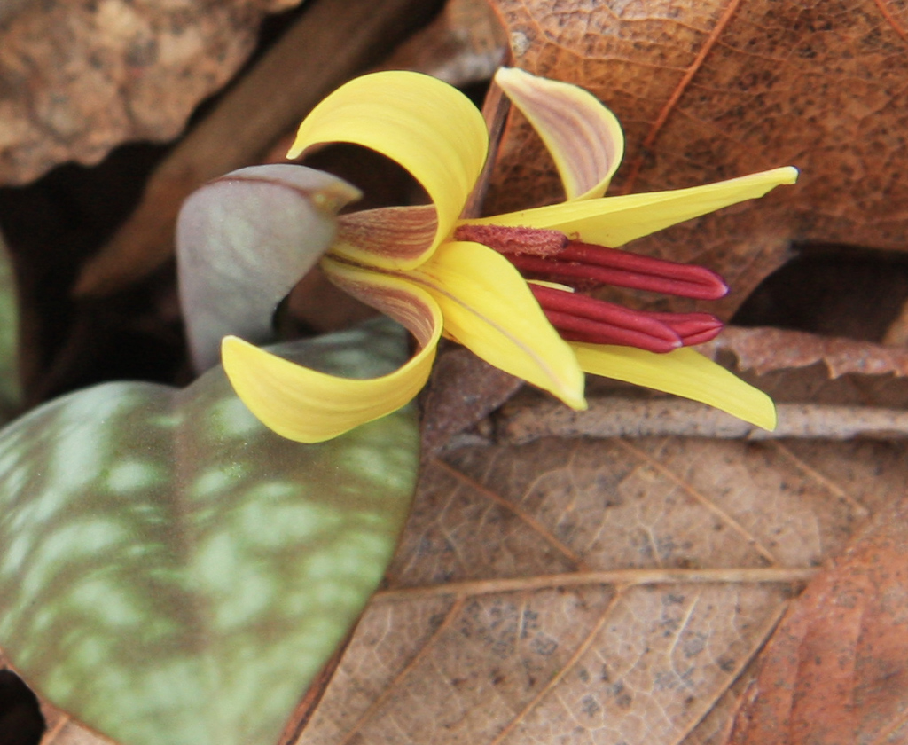 Trout lily, or dog-tooth violet (Erythronium americanum) closeup of early spring flower just emerging on woods floor. Duke Forest Korstian Division, Durham, NC, USA.